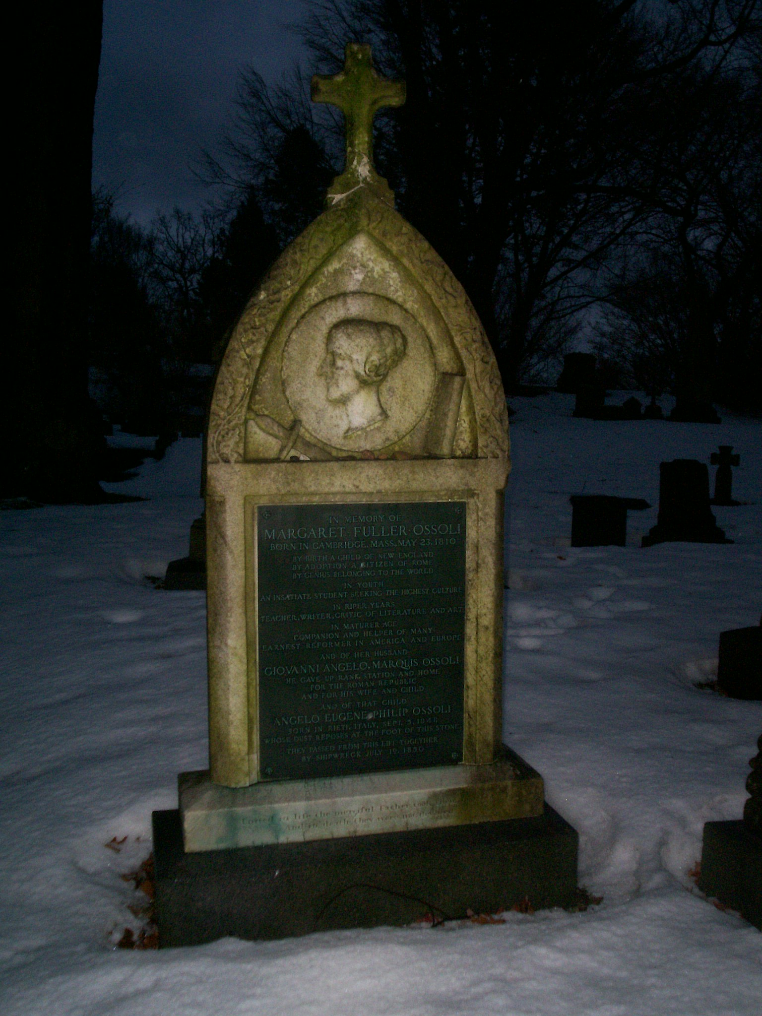 Memorial marker for Margaret Fuller Ossoli, her husband, and their son. Located at Mount Auburn Cemetery in Cambridge, Massachusetts.